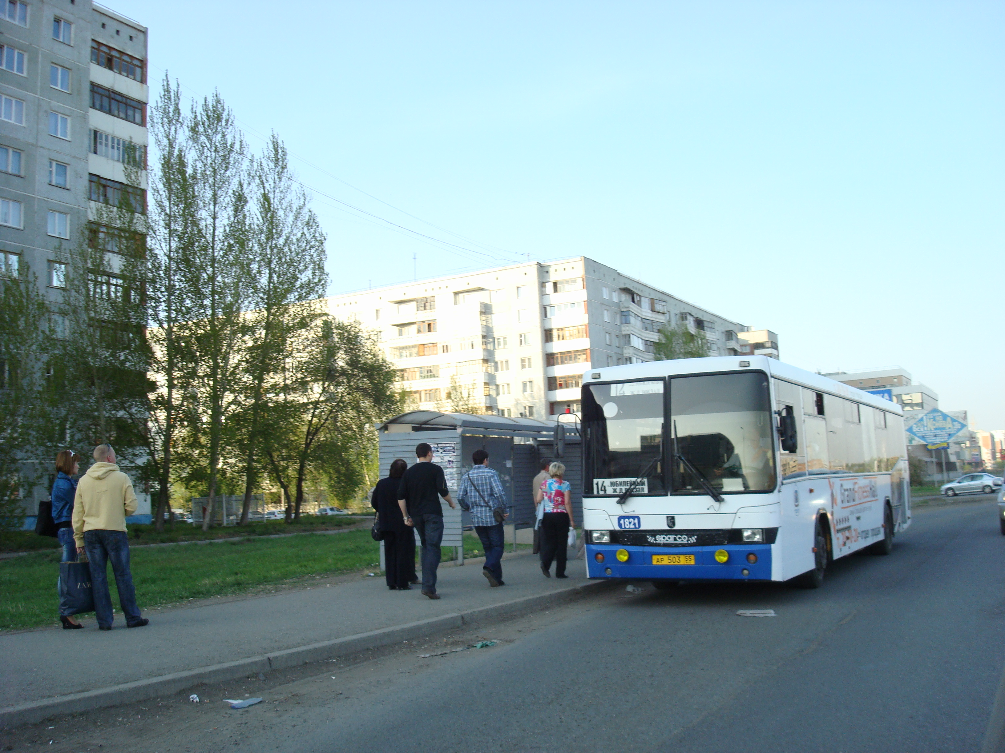 NefAZ bus on the street Konev in Omsk, Russia.